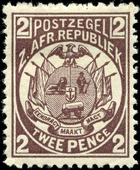 Transvaal 2p brown-purple, stamp of 1885, SG177